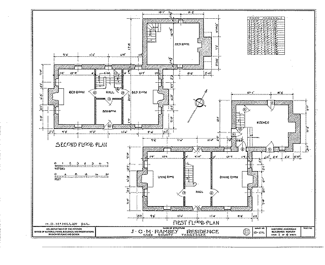 Floor plan of the Ramsey House in Knoxville, Tennessee, USA, drawn for the Historic American Buildings Survey in 1934. Historic American Buildings Survey—HABS image.